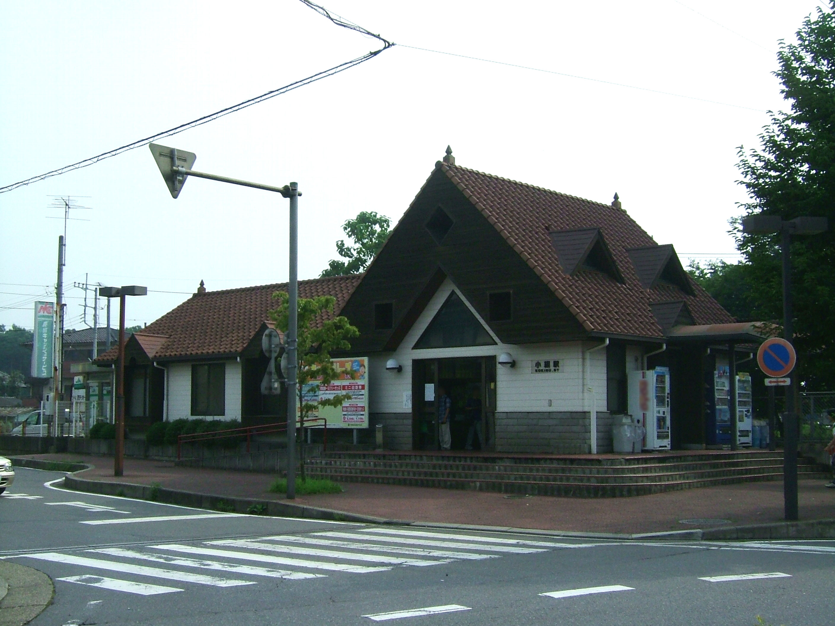 Kokinu Station building (Kanto Railway Jōsō Line)